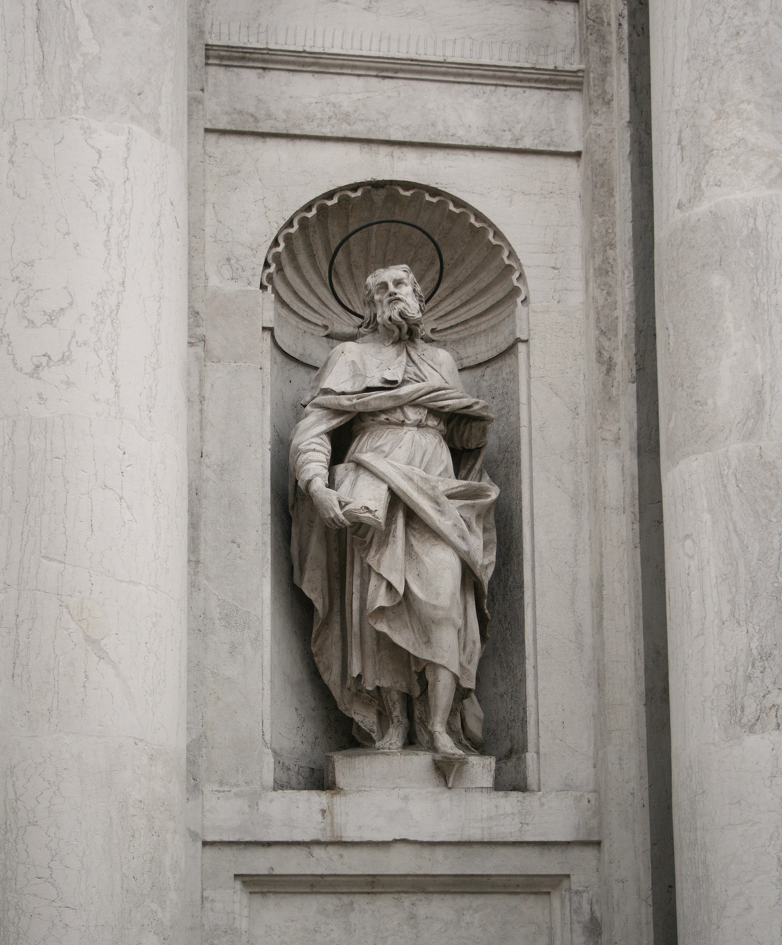 Church of Gesuiti, Venice